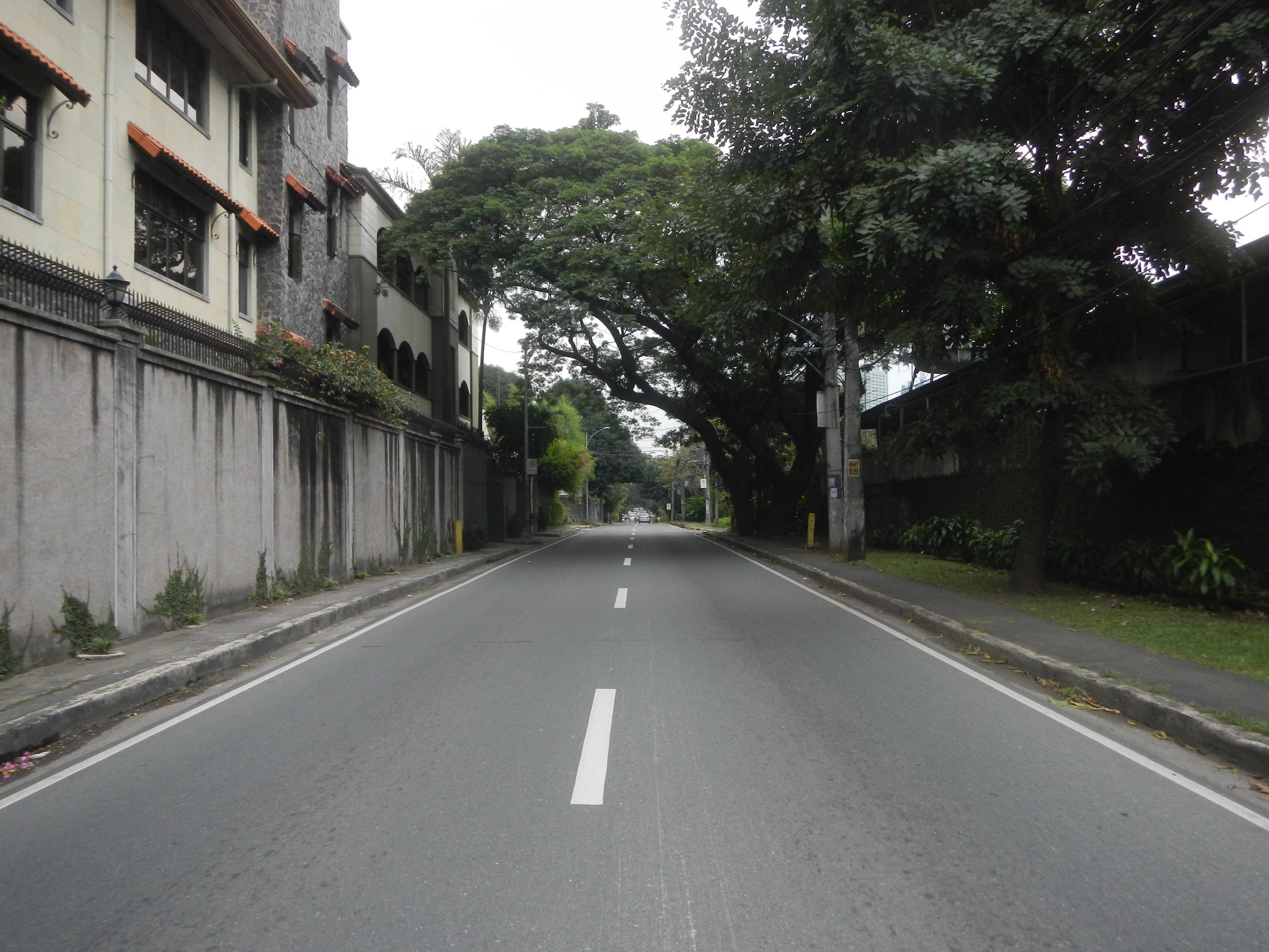 Balete Drive (E. Rodriguez, Sr. Avenue - Bouganvilla Street), Mariana, New Manila, Quezon City in front of Balete Drive Extension Balete Drive Haunted highway List of haunted locations in the Philippines Major roads in Metro Manila in the List of barangays of Metro Manila Legislative districts of Quezon City Districts 3, Barangays of Quezon City, Barangay Kristong Hari 14°37'28"N 121°1'31"E beside Mariana 14°37'1"N 121°2'13"E New Manila, Quezon City upon the List of rivers and estuaries in Metro Manila Diliman Creek from San Juan River (Metro Manila) Estuaries in Cubao, Quezon City along Aurora Boulevard (Note: Judge Florentino Floro, the owner, to repeat, Donor Florentino Floro of all these photos hereby donate gratuitously, freely and unconditionally all these photos to and for Wikimedia Commons, exclusively, for public use of the public domain, and again without any condition whatsoever).